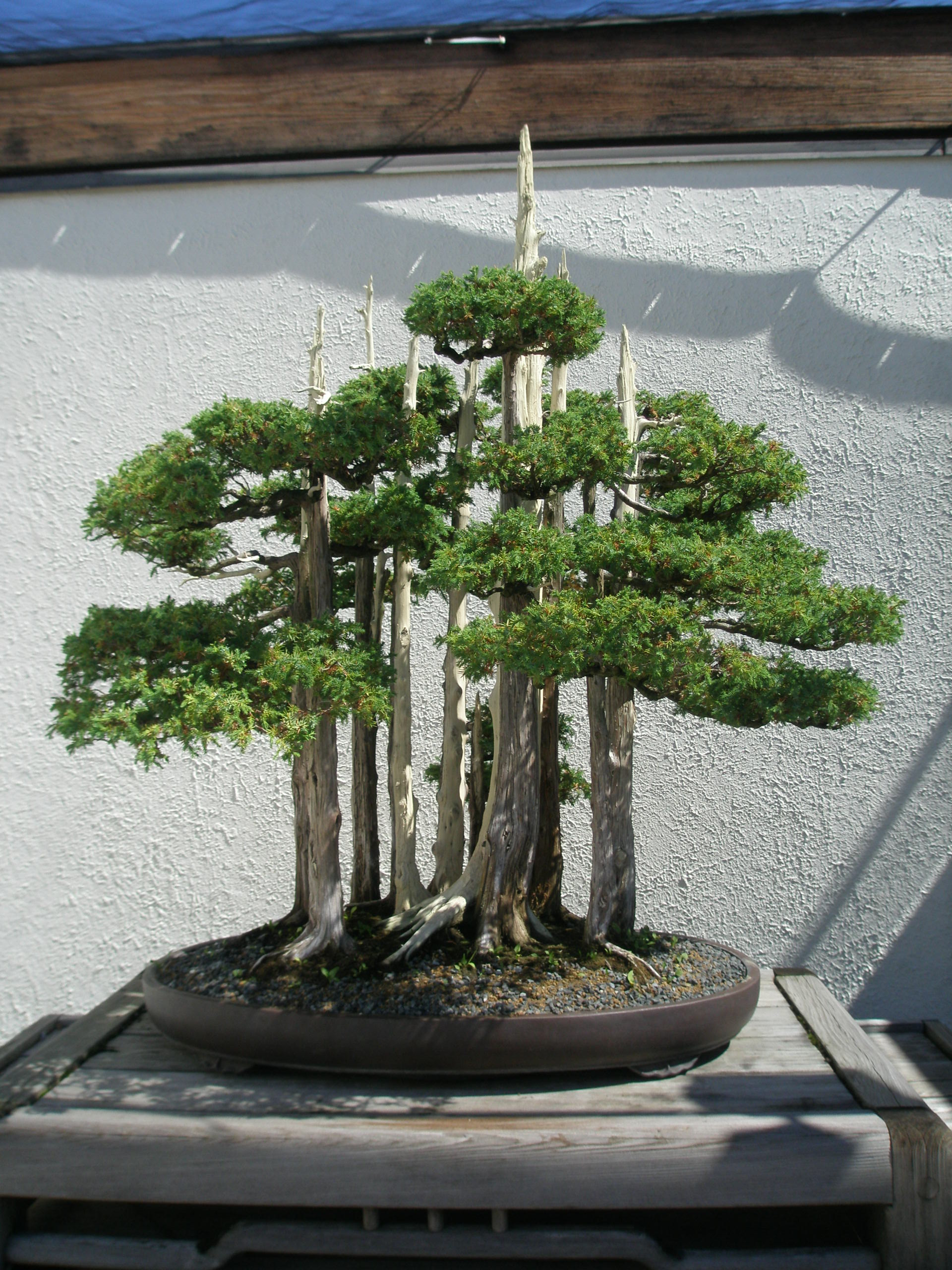 The guy involved in setting up the National Bonsai and Penjing Museum, John Y. Naka, worked on this bonsai himself and added to it as he had more grandchildren. John Naka's famous bonsai masterpiece Goshin, on display at the National Bonsai & Penjing Museum of the National Arboretum in Washington, DC. It consists of 11 Foemina juniper trees (Juniperus chinensis 'Foemina'), representing Naka's 11 grandchildren.